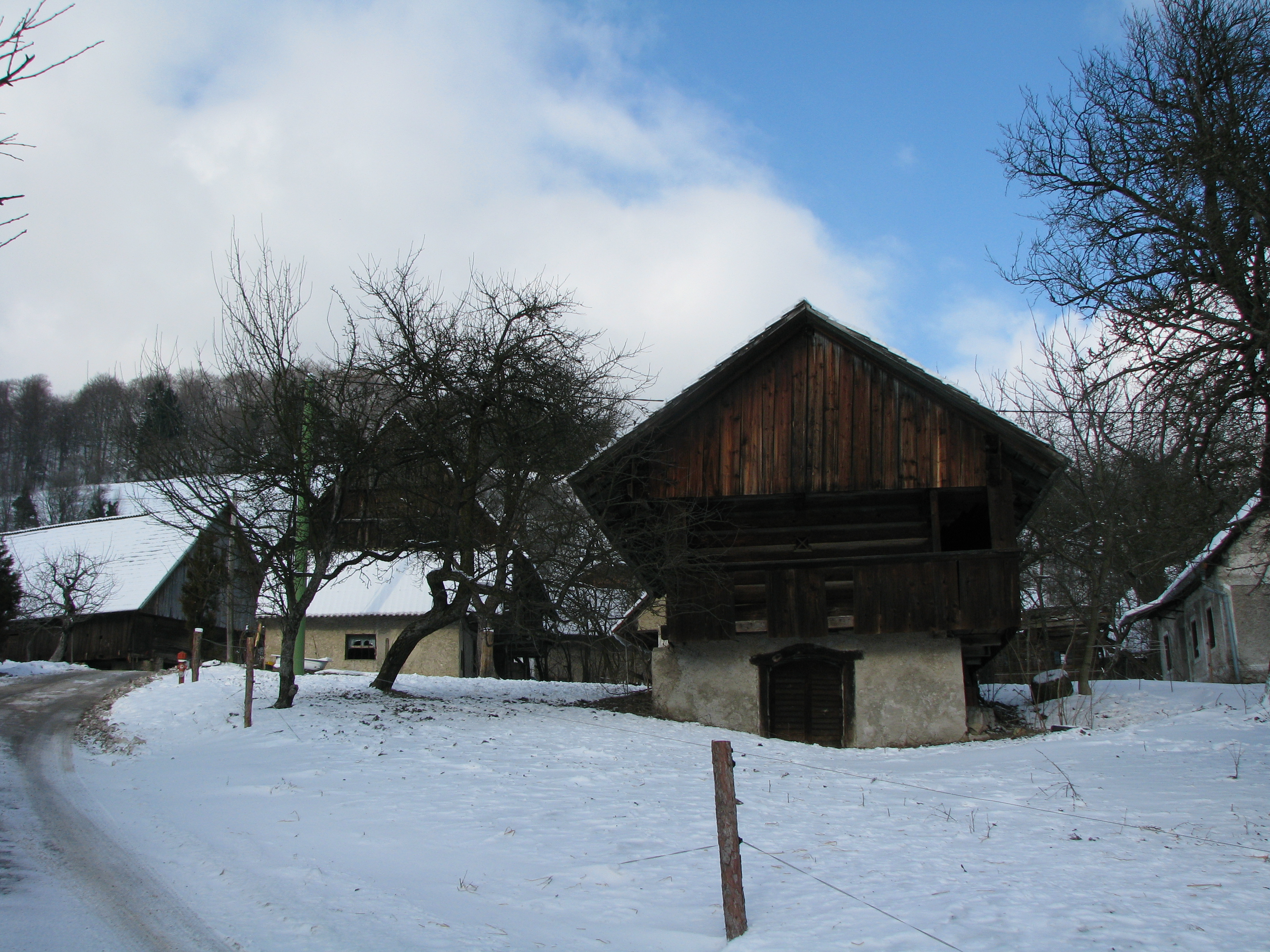 Village of Unično, Hrastnik municipality, Slovenia.